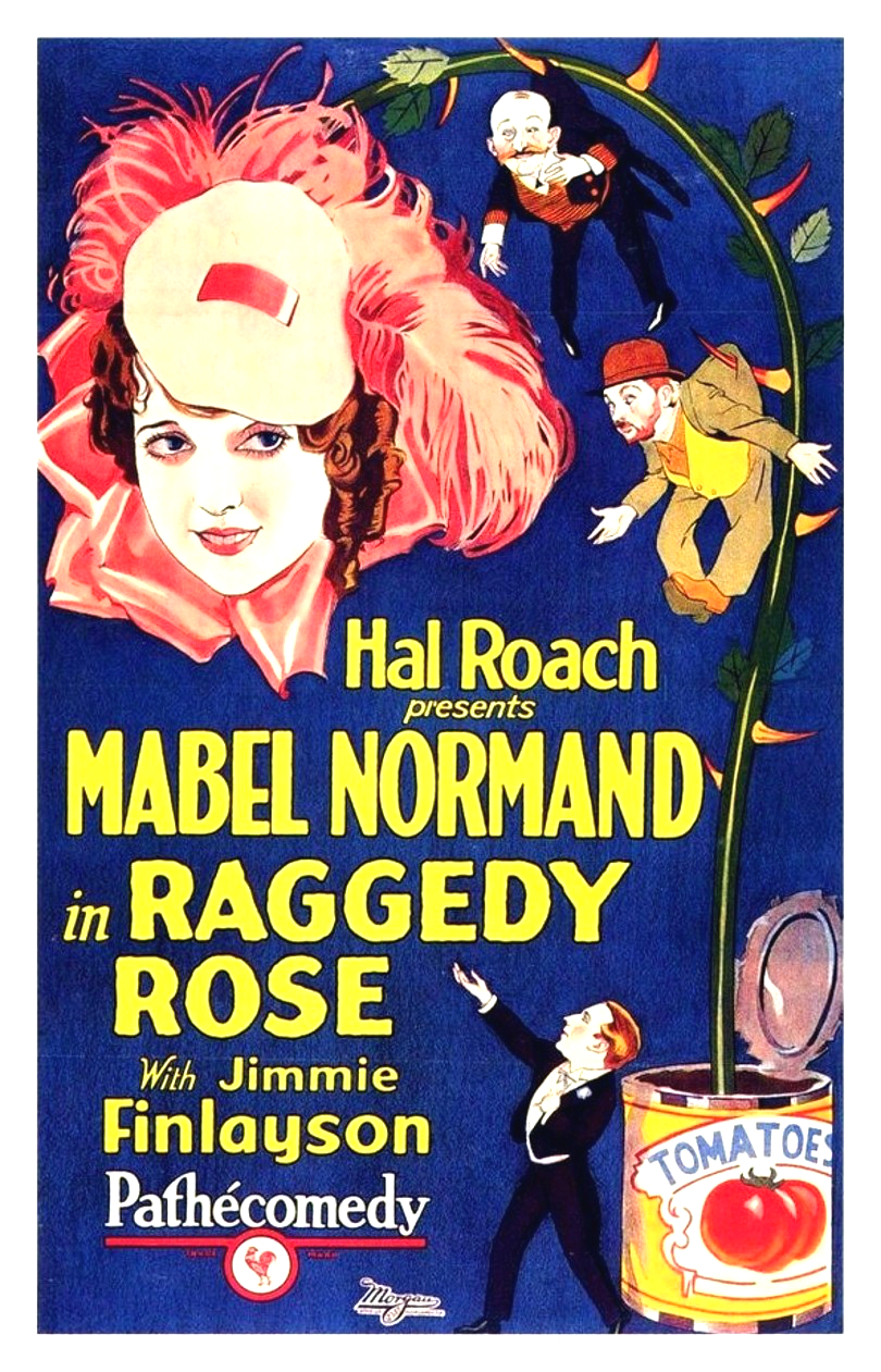 Poster for the 1926 film Raggedy Rose. There are no copyright marks as can be seen at the link. At bottom is a Morgan Litho Company logo--they printed the poster.